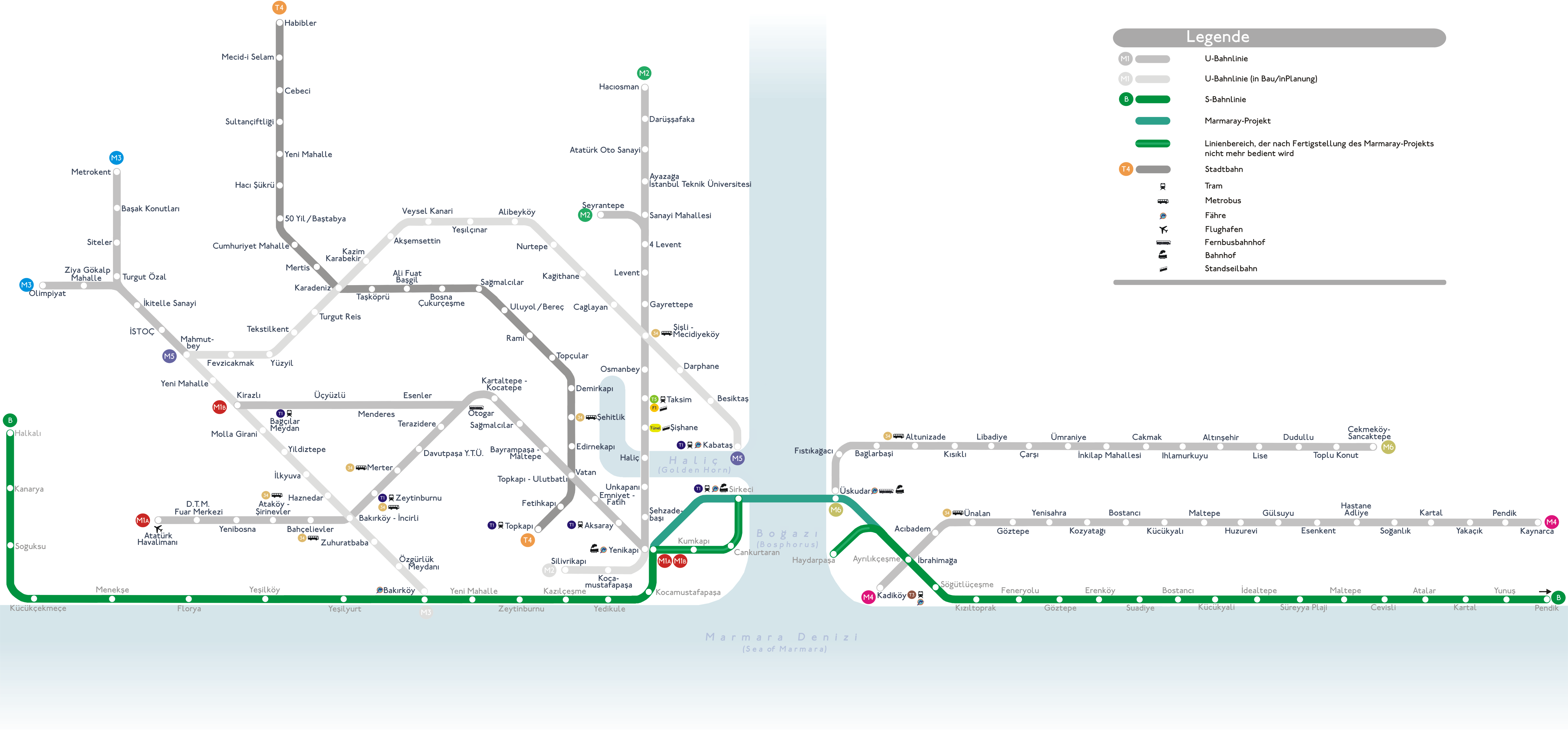 Marmaray Project Suburban Rail Istanbul